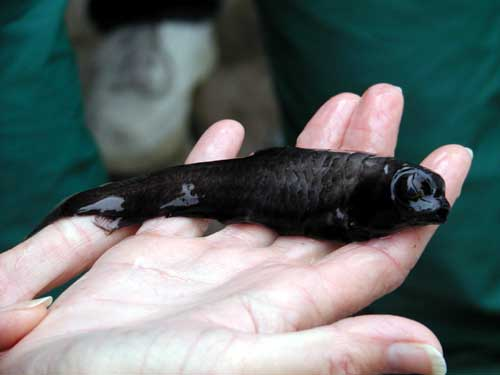 Deep-sea smelt, Bathylagus sp.